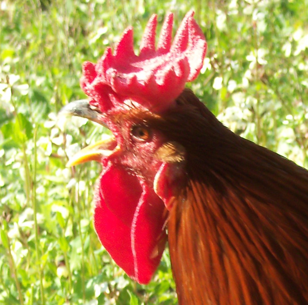 Purebred Siciliana chicken with typical double comb.